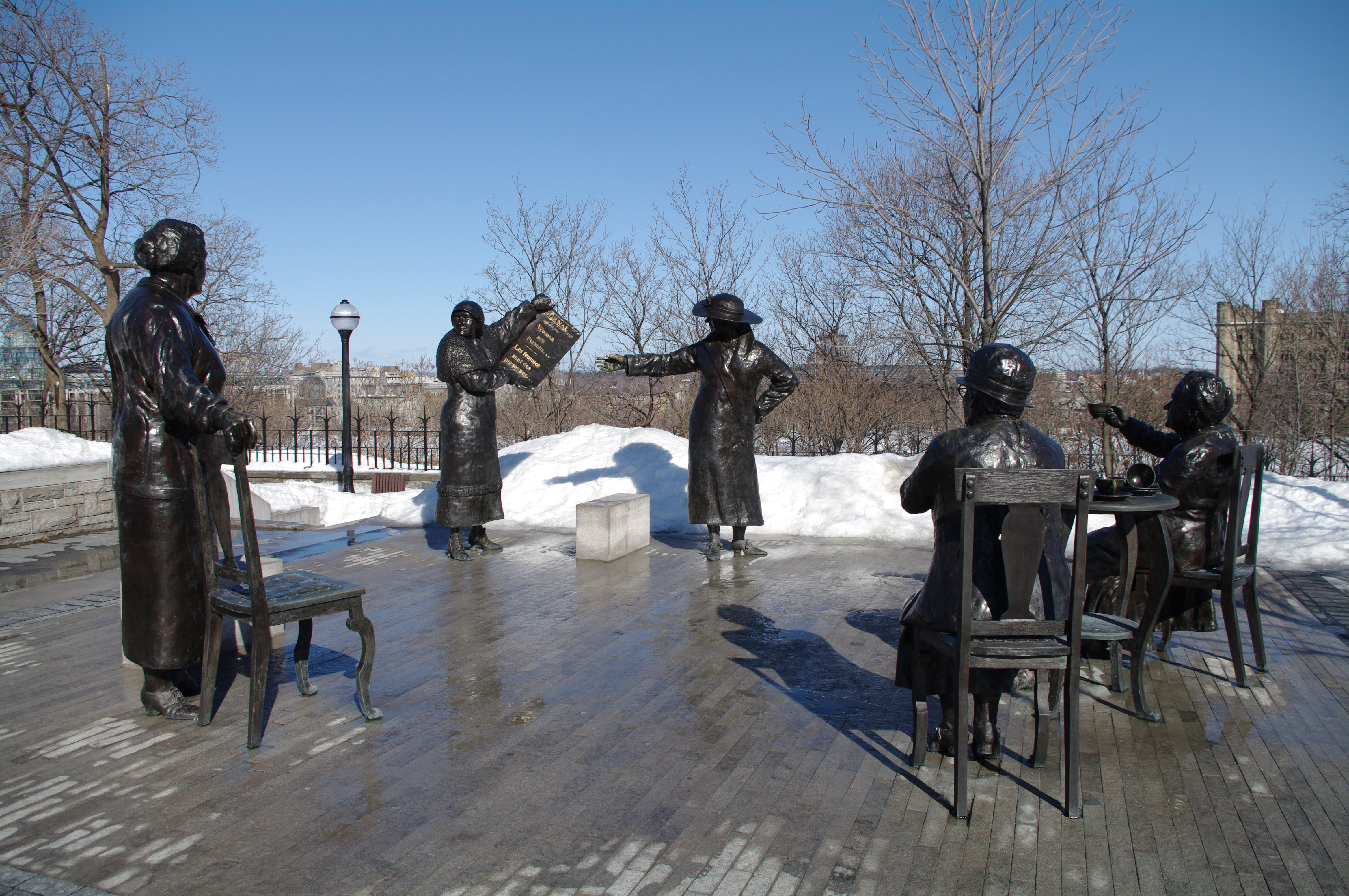 Unmodified file Pentax K20 DSLR Group of 5 bronze statues depict events of 1928/9 that eventually obtained a decision from the highest courts that women are persons and could be elected to the Senate.